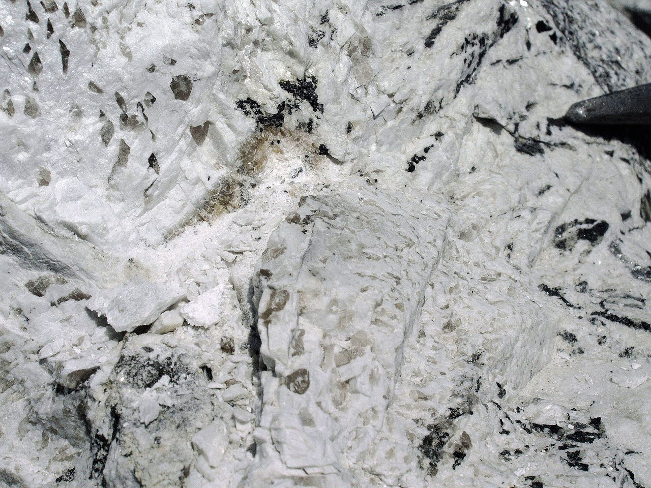 Graphic granite. Pegmatites in granodiorites from Jawor (quarry "Zimnik") near Jelenia Góra, Lower Silesia, Poland